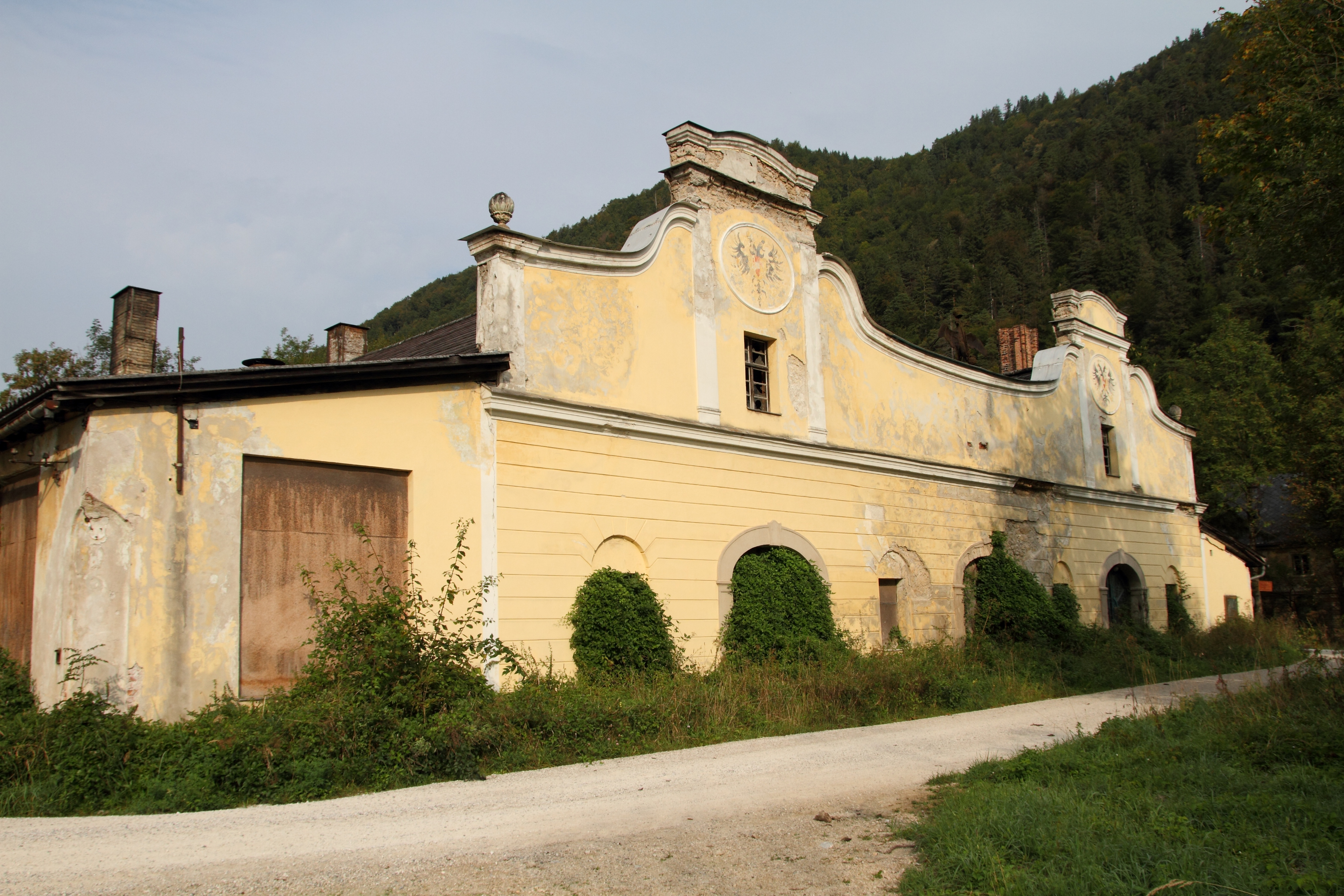 Old Töpper foundry in Kienberg